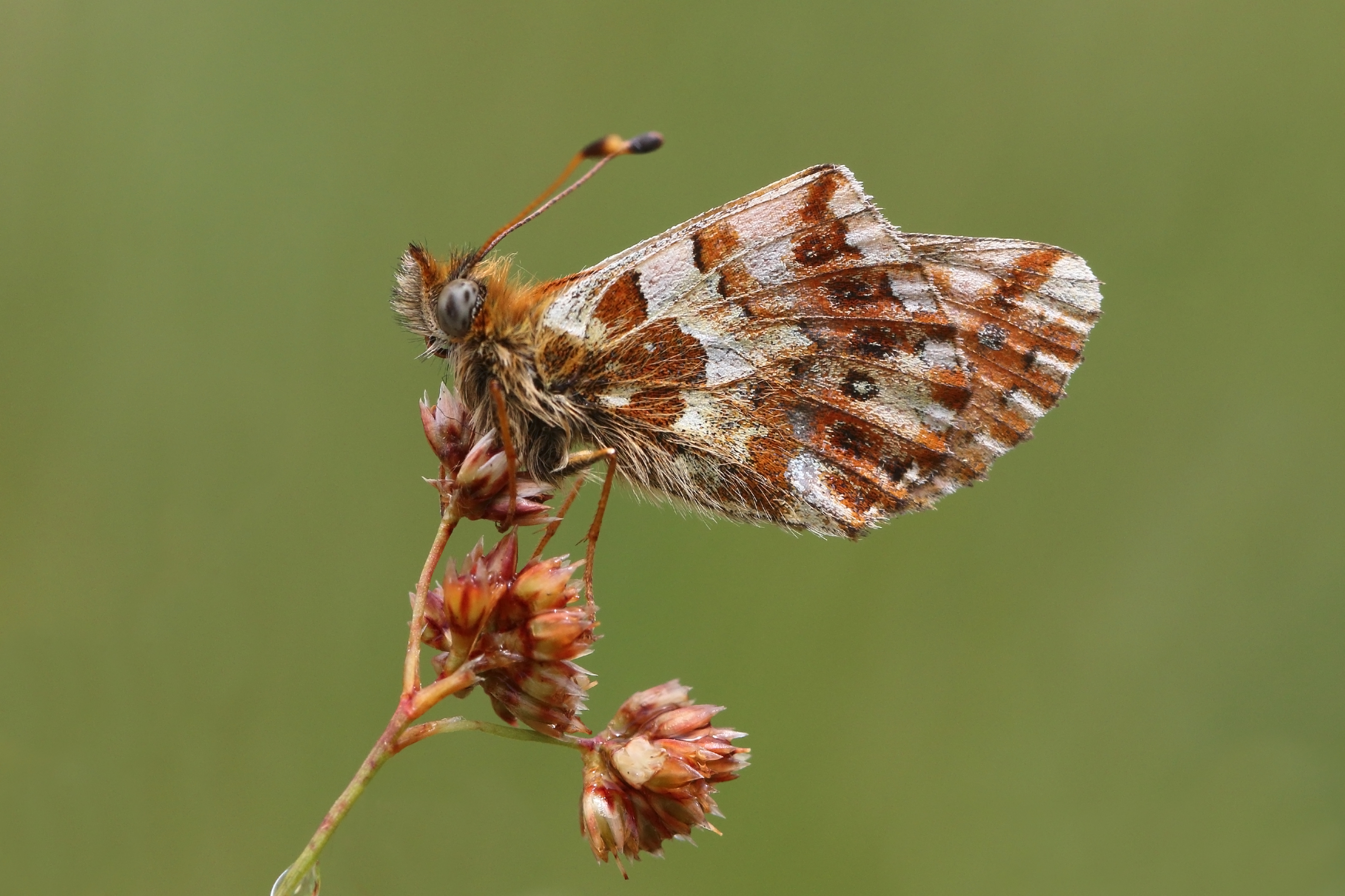 Balkan fritillary (Boloria graeca balcanica), Yastrebets, Rila Mountains, Bulgaria